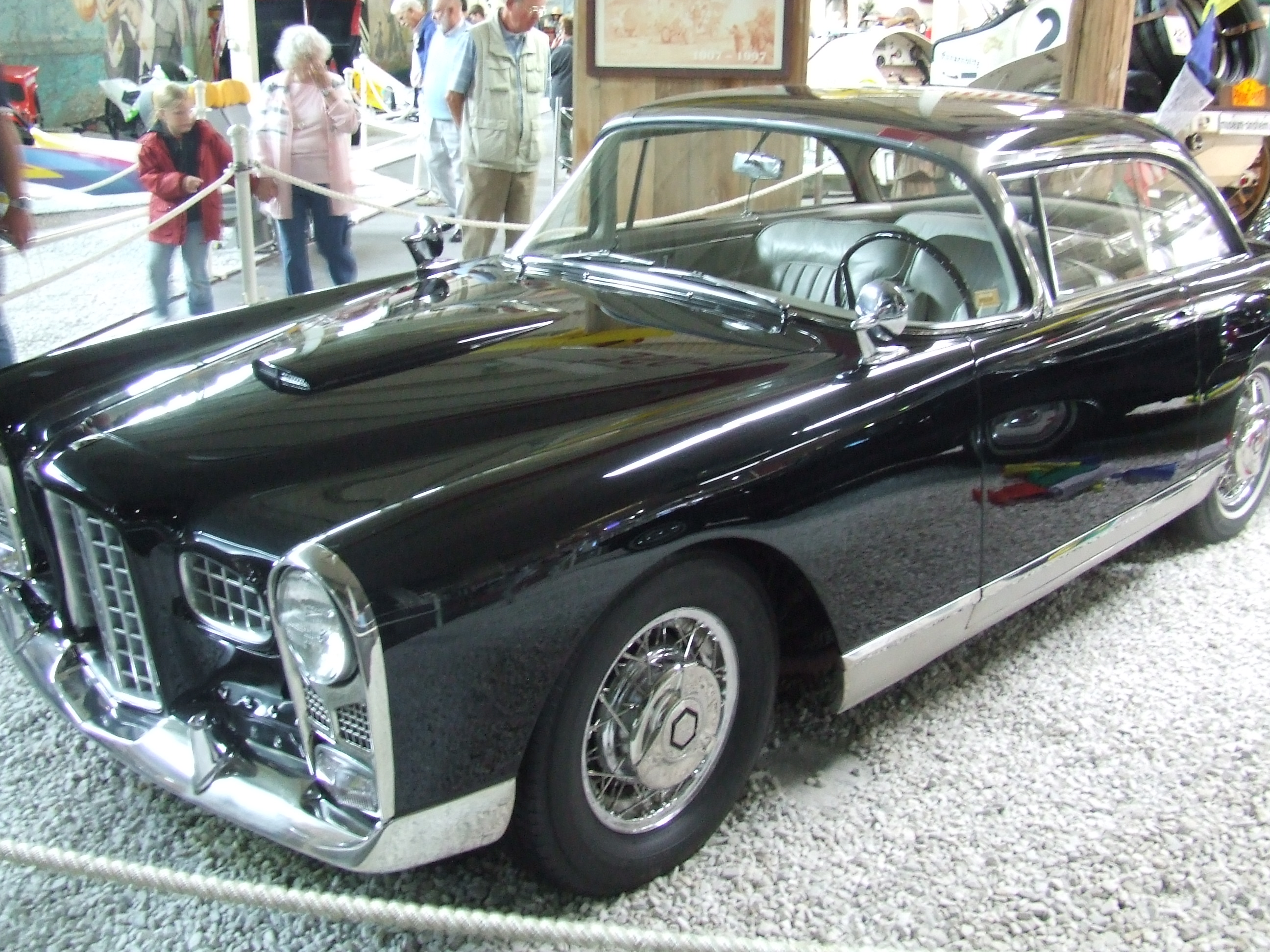 Luxury Limousine in the late 1950s: Facel Vega FV2, Sinsheim Auto & Technik Museum